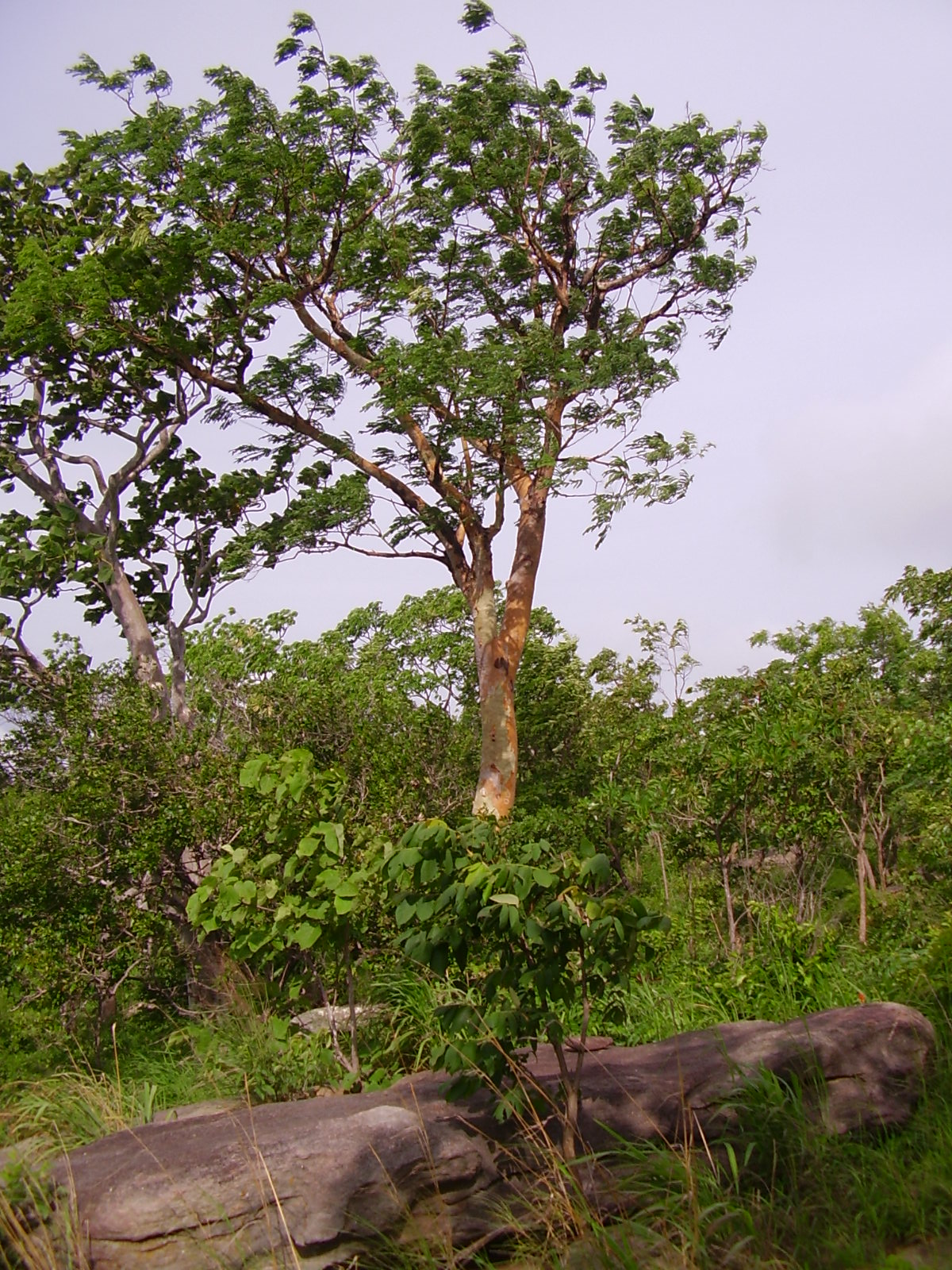 One of many trees in Tanzania's Miombo woodland.